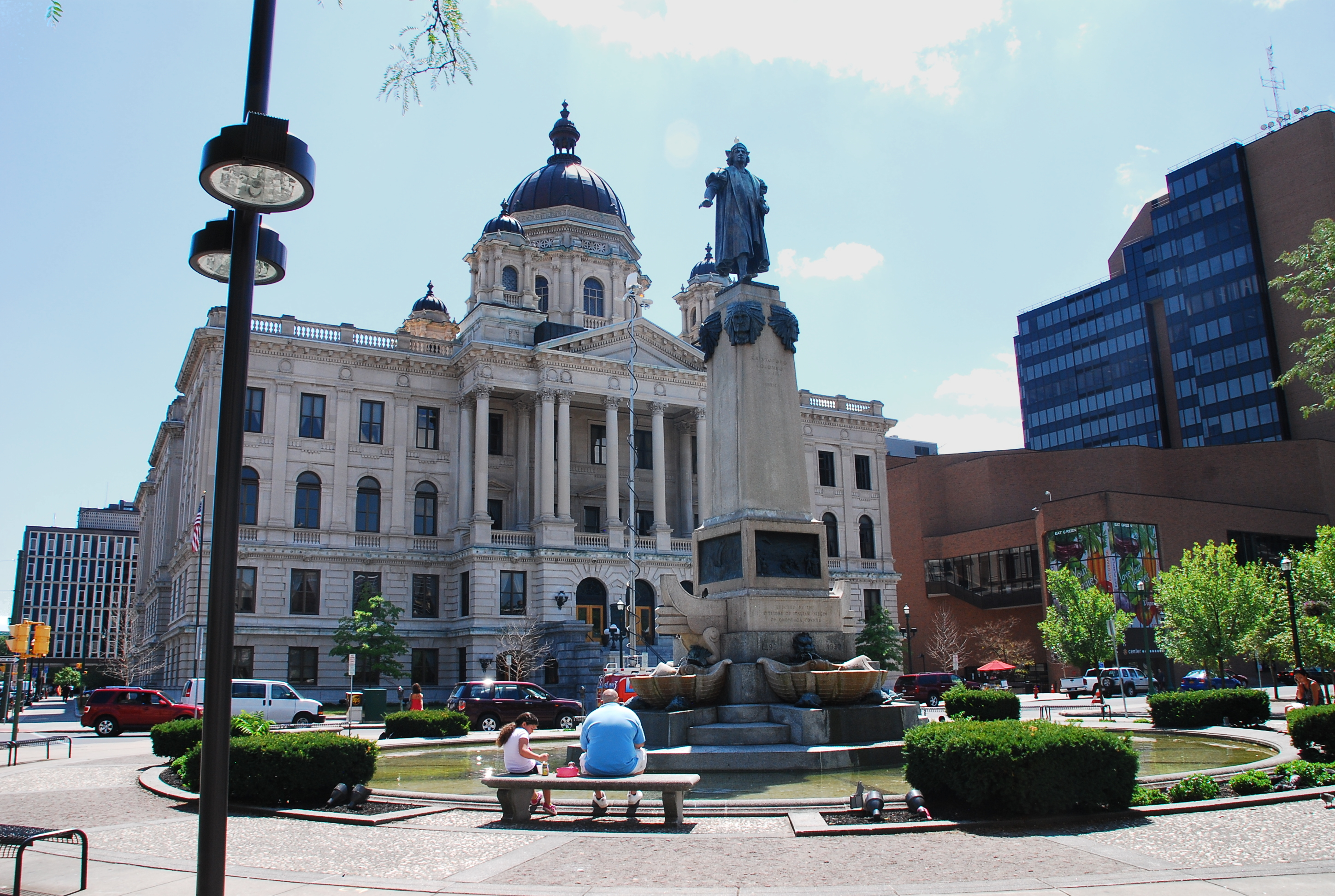 Clinton Square in Syracuse, NY.